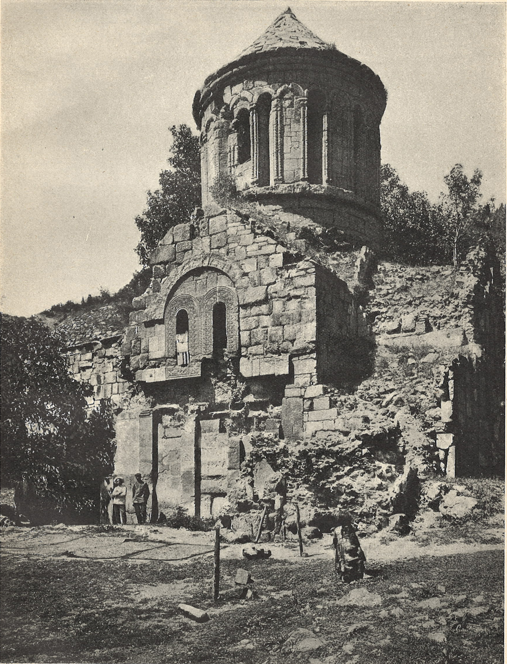 The Eni-Rabat church. View from southeast. This medieval church in northeastern Turkey is sometimes identified with the well-known medieval Georgian cathedral of Shatberdi. From Nicholas Marr's dairy of his travels to Shavsheti and Klarjeti (1911).